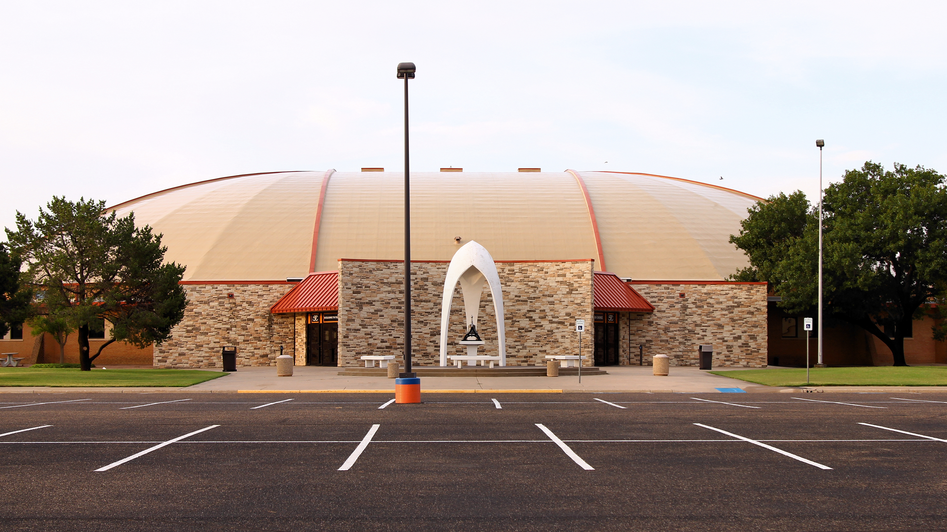 The Texan Dome at South Plains College in Levelland, Texas, United States.